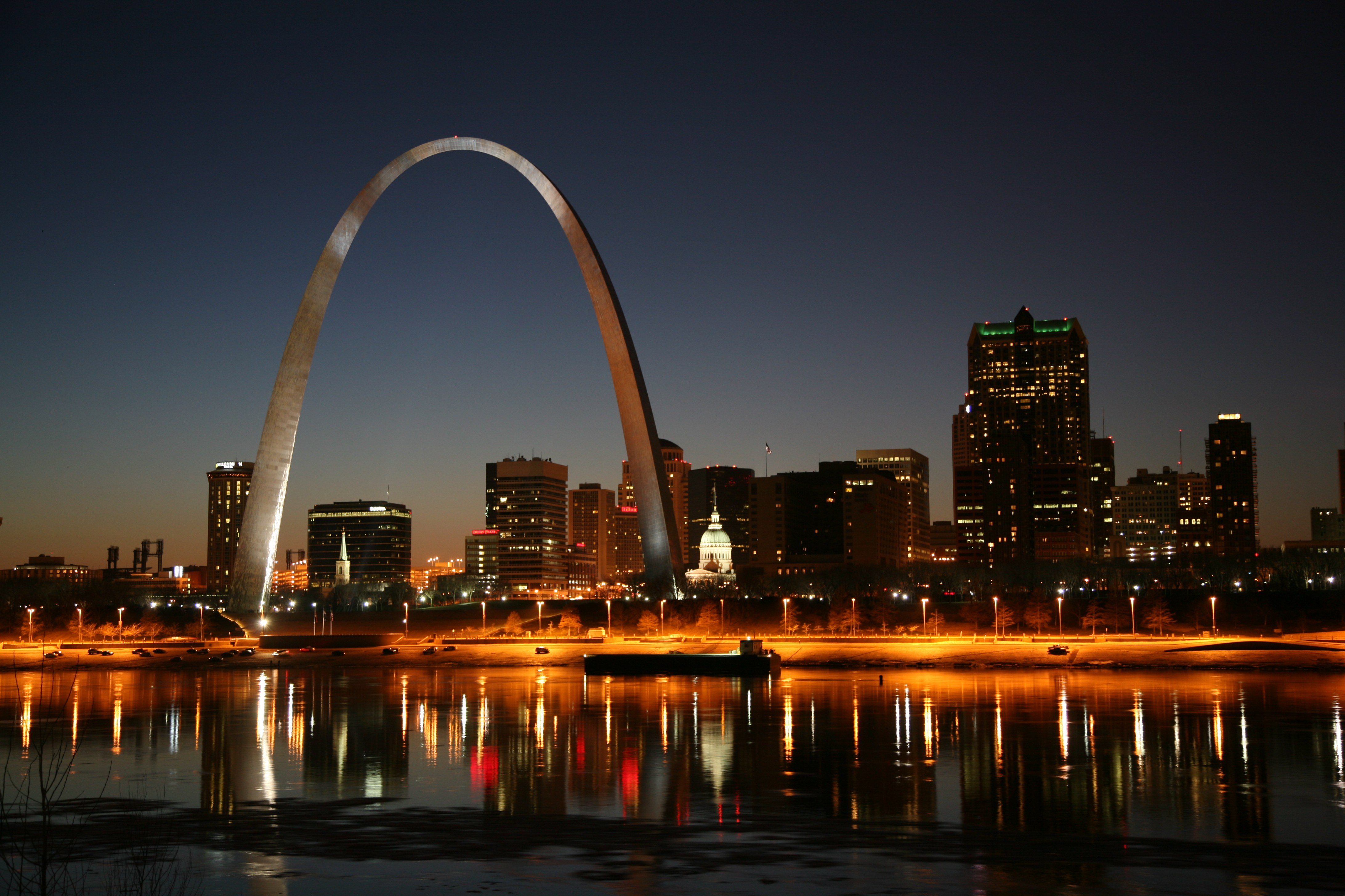 St. Louis on the Mississippi river by night/ Jefferson National Expansion Memorial aka. Gateway Arch and Old Courthouse are visible.